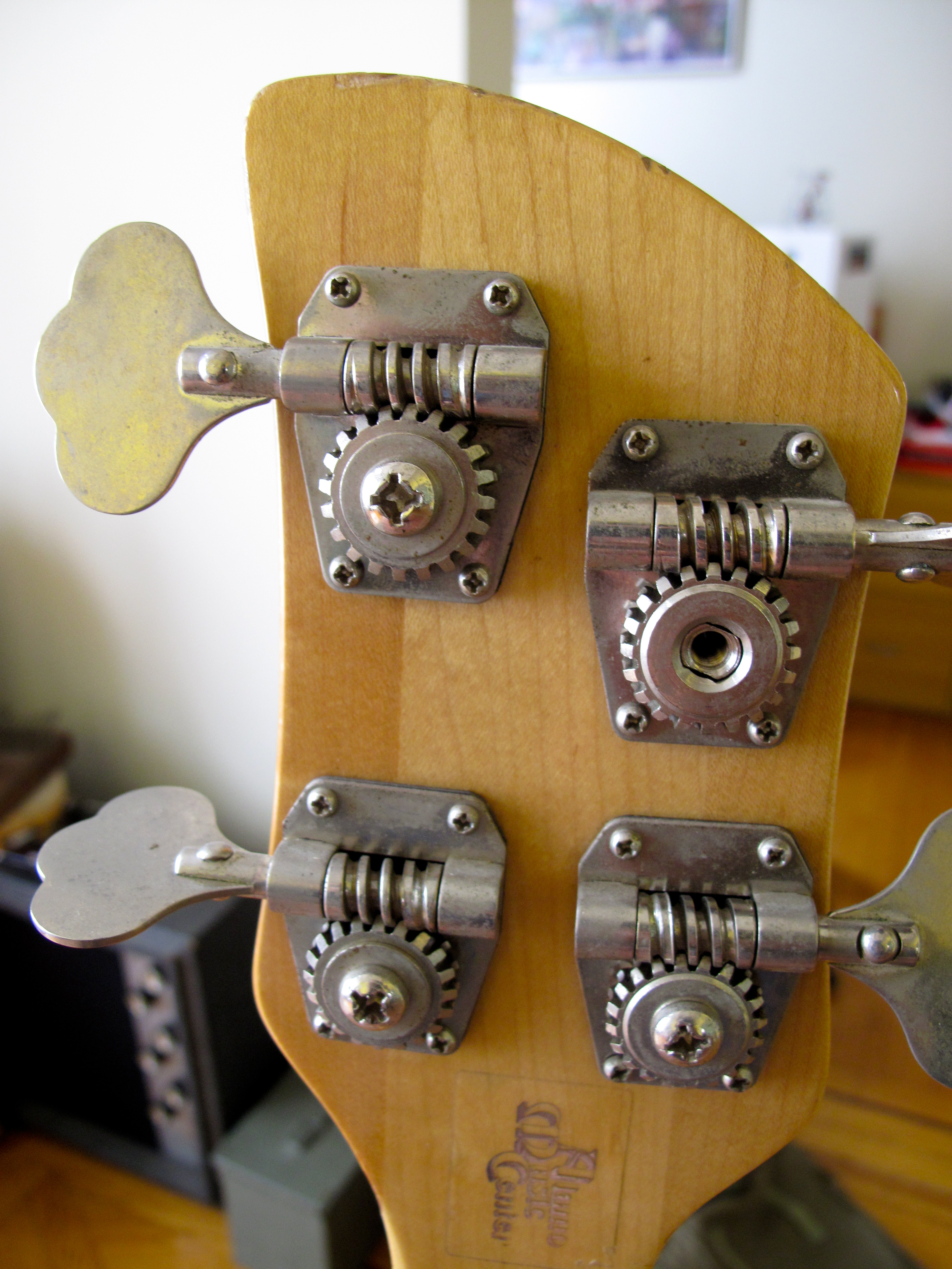 Rickenbacker 3000 [1] back of the head